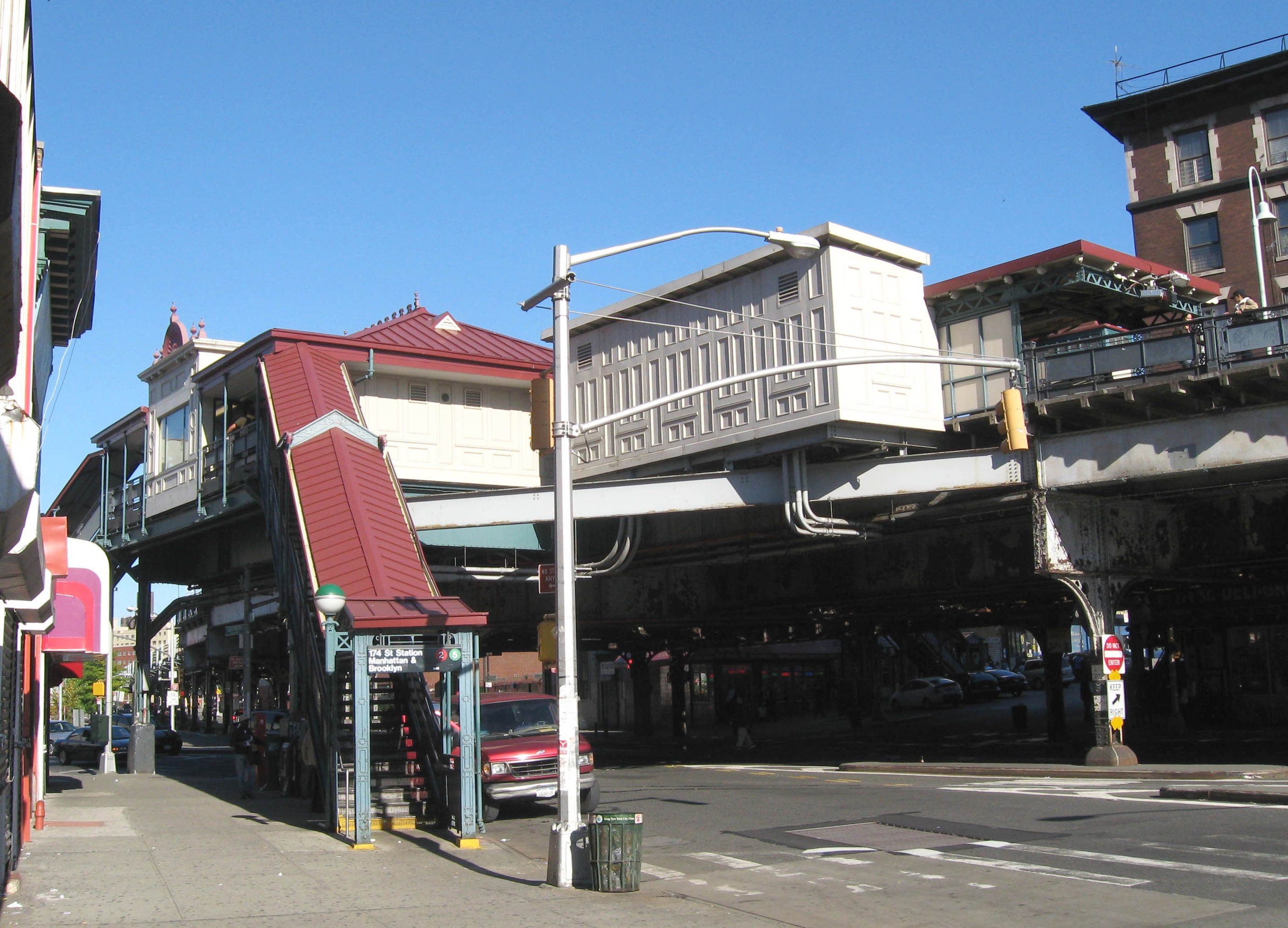 Looking northeast from Boston Rd at en:174th Street (IRT White Plains Road Line) westernmost staircase on a sunny midday.